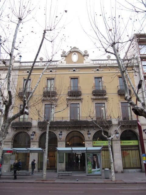 Casal Pere Quart (Sabadell, Vallès Occidental, Catalonia).